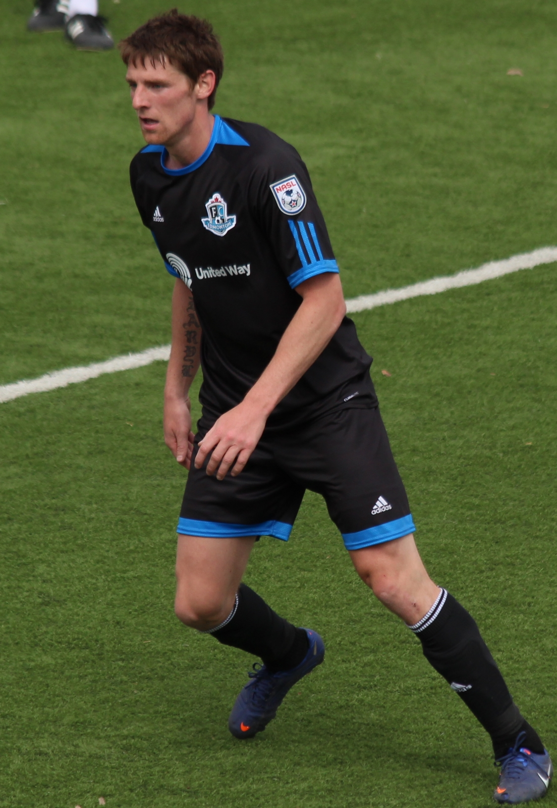 Daryl Fordyce of FC Edmonton against the San Antonio Scorpions on April 28, 2013. Own work, public domain.